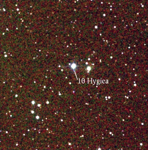 The solar system asteroid 10 Hygiea.